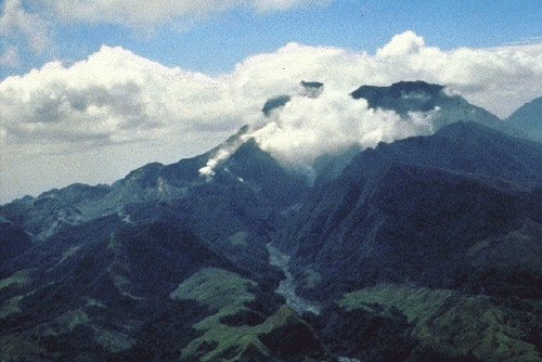 Mount Pinatubo in April 1991, before the onset of magmatic eruptions. Preeruption Mount Pinatubo, April 16, 1991. View from the northwest, up the Maraunot River valley. The river had become acidic and silty, owing to reactivation of the hydrothermal system and phreatic explosions of April 2, 1991 (the vents of which were just out of view at left edge of photograph). Steam was from 2-week-old fumaroles on the upper north slope of the volcano. The fumarole farthest to the right (behind a jagged ridge, right of the one visible on the valley floor) would later become the site of the preclimactic lava dome extrusion of June 7-12 (Hoblitt, Wolfe, and others, this volume). Mount Negron is behind and to the right of Pinatubo. (R.S. Punongbayan) USGS